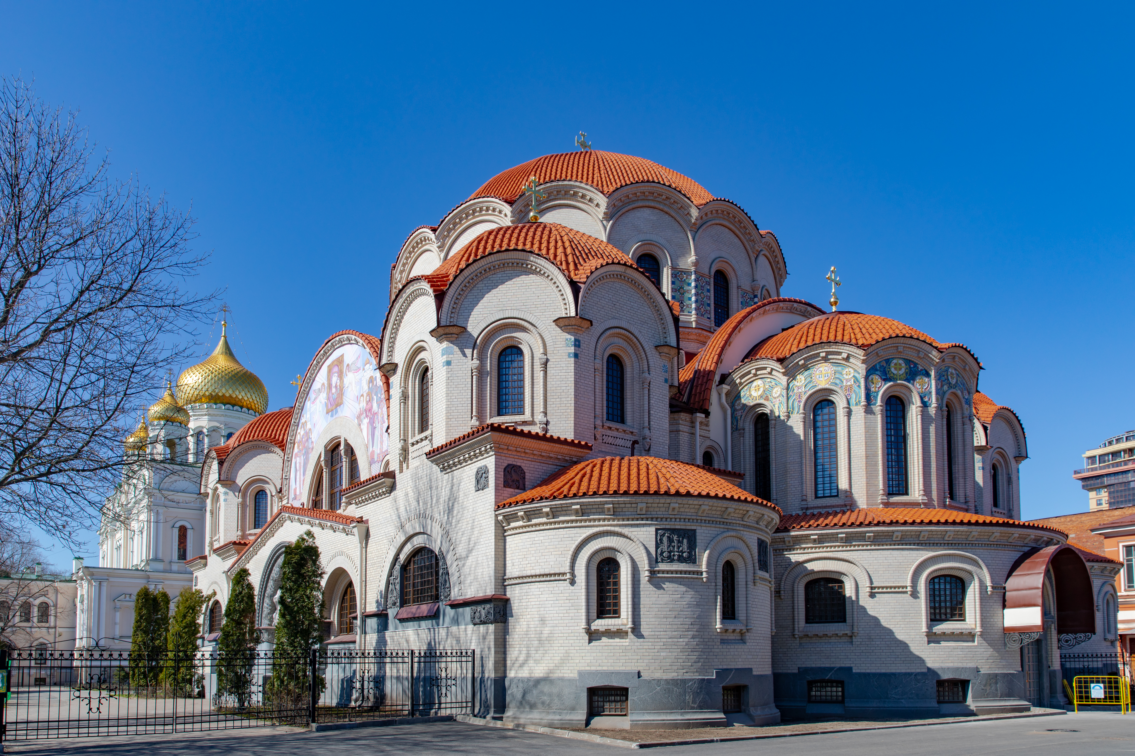 Novodevichy Resurrection Convent (Voskresénskij Novodévičij monastery) in St. Petersburg is an Orthodox nunnery of St. Petersburg Diocese of the Russian church.